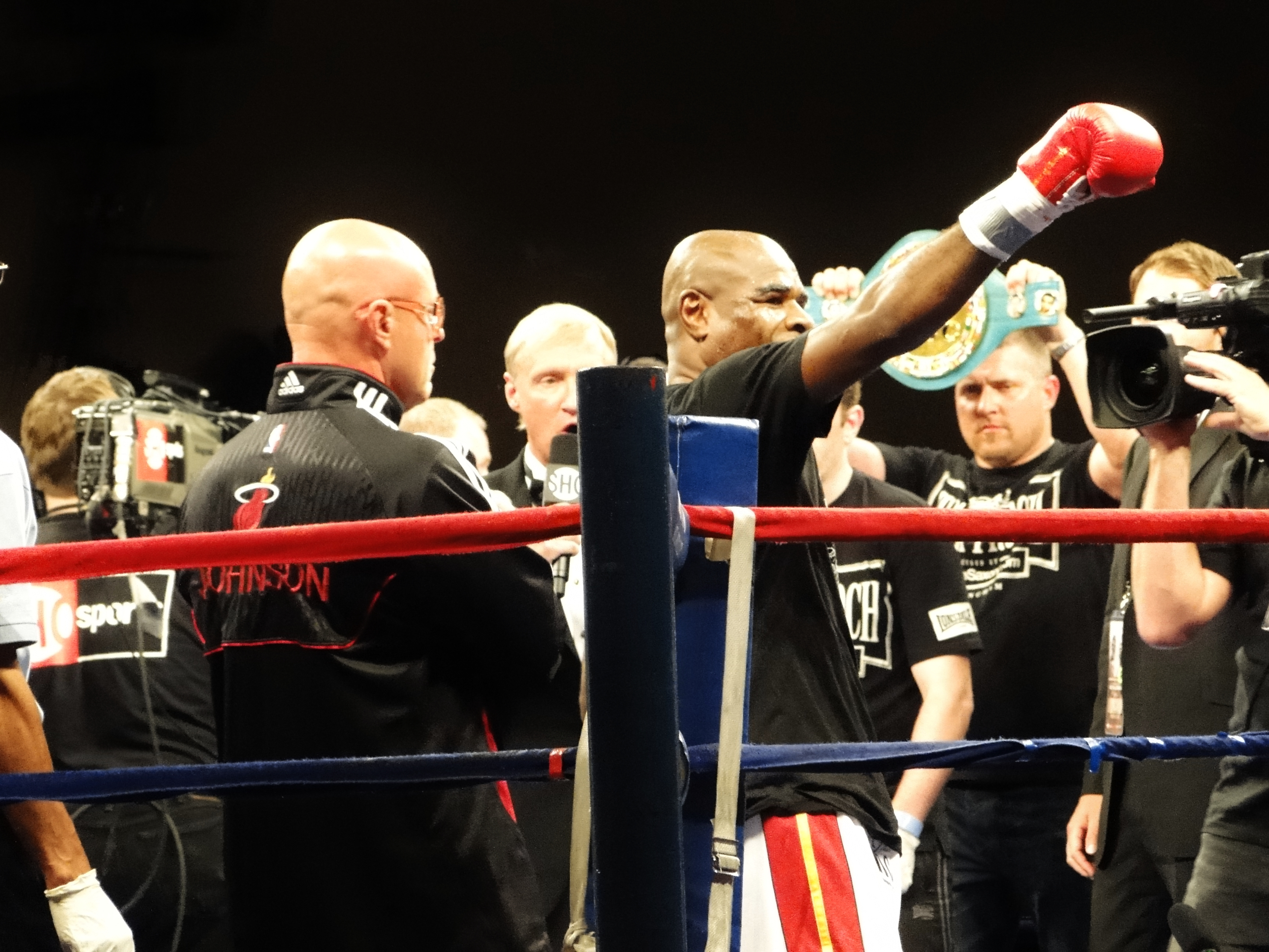 Glen Johnson raising his right hand before the fight against Carl Froch at the Boardwalk Hall in Atlantic City, New Jersey, United States on June 4, 2011.